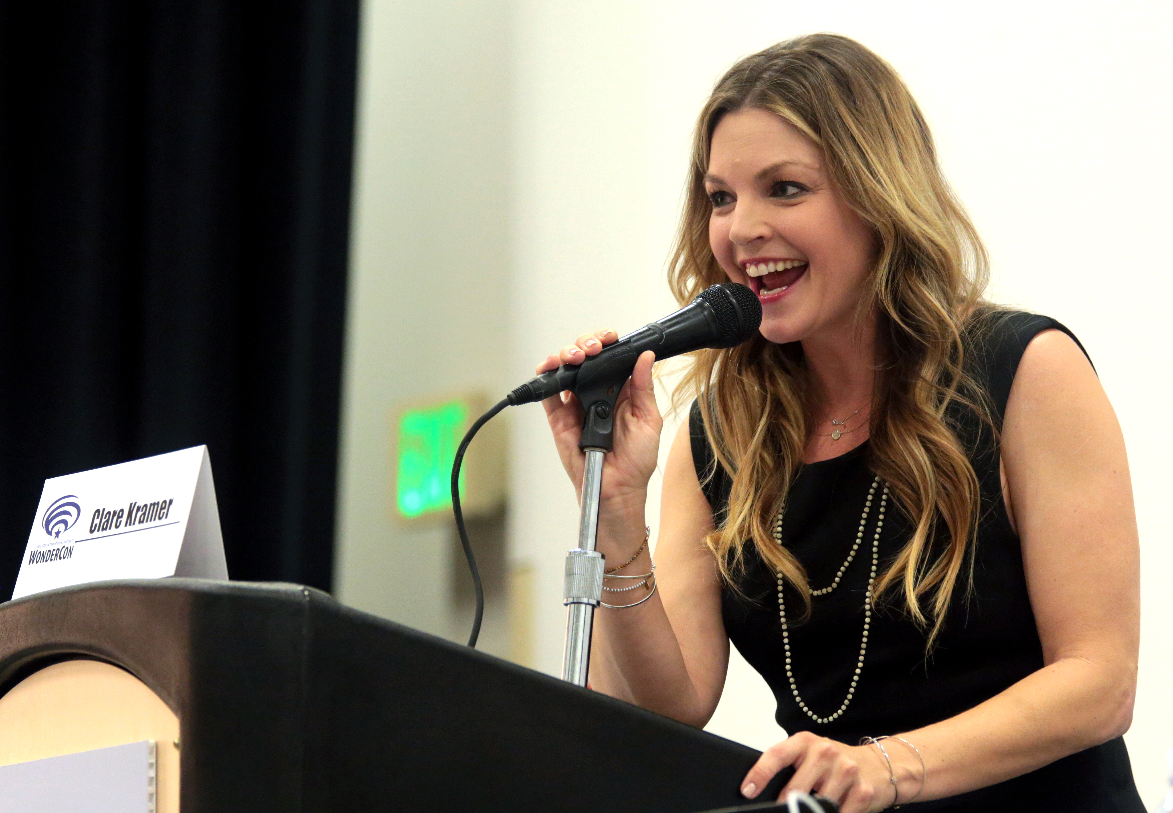 Clare Kramer speaking at the 2017 WonderCon in Anaheim, California.